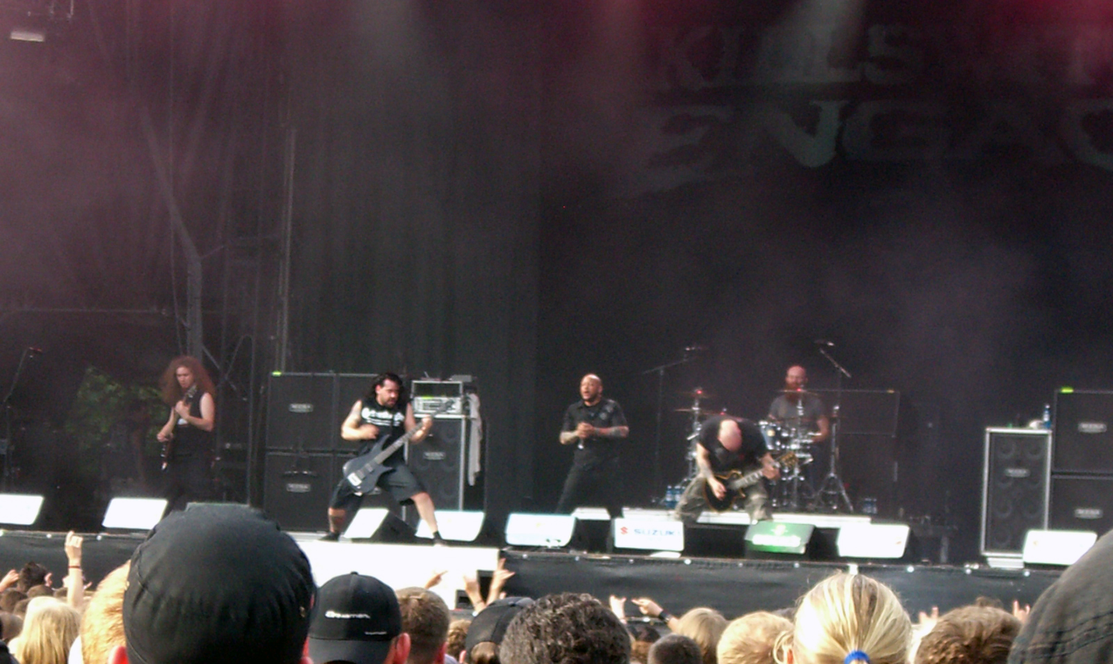 Killswitch Engage at Rock im Park 2007